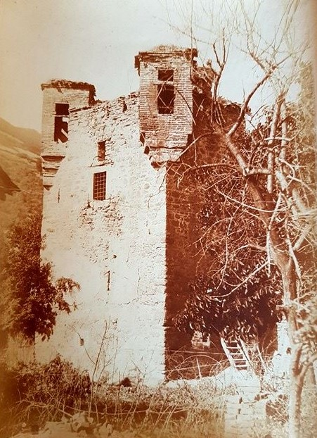 Florina Big Tower